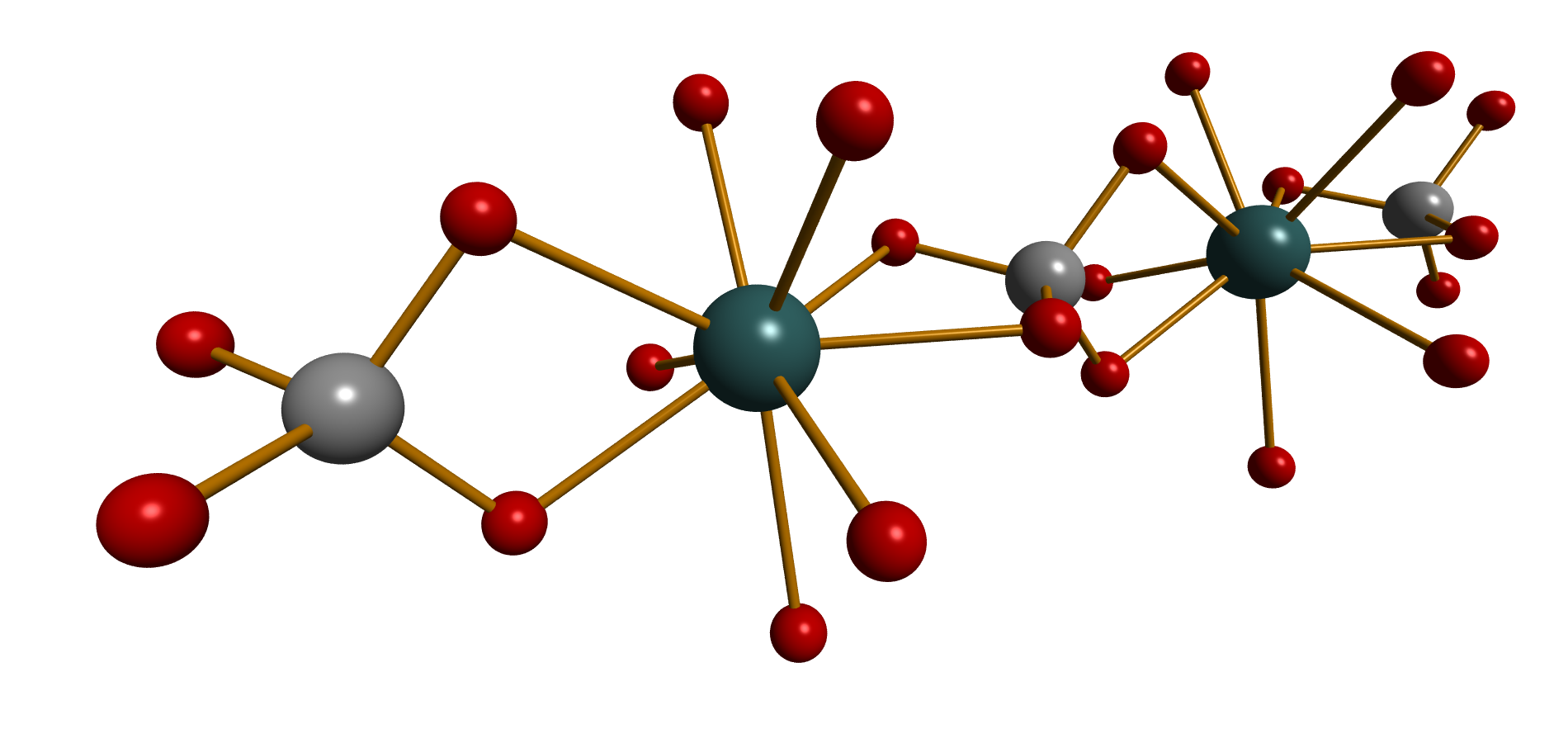 SiO4–ThO5–SiO4– chain viewed along the the c-axis in Huttonite (monoclinic ThSiO4). Thorium is shown in green, silicon in grey, and oxygen in red. Structural parameters taken from (based on Mark Taylor and R. C. Ewing (1978). "The Crystal Structures of the ThSiO4 Polymorphs: Huttonite and Thorite". Acta Cryst. B34: 1074–1079.